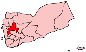 Map of Yemen showing Sana'a governorate. Source: Made by User:Golbez.